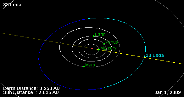 37 Leda orbit, and his position on 1 Jan 2009 (NASA Orbit Viewer applet)